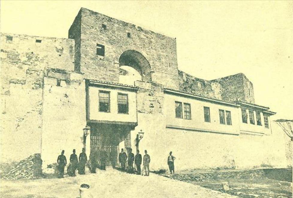 Main gates of Yedi Kule or Heptapyrgion fortress prison in Thessaloniki with Turkish soldiers in front